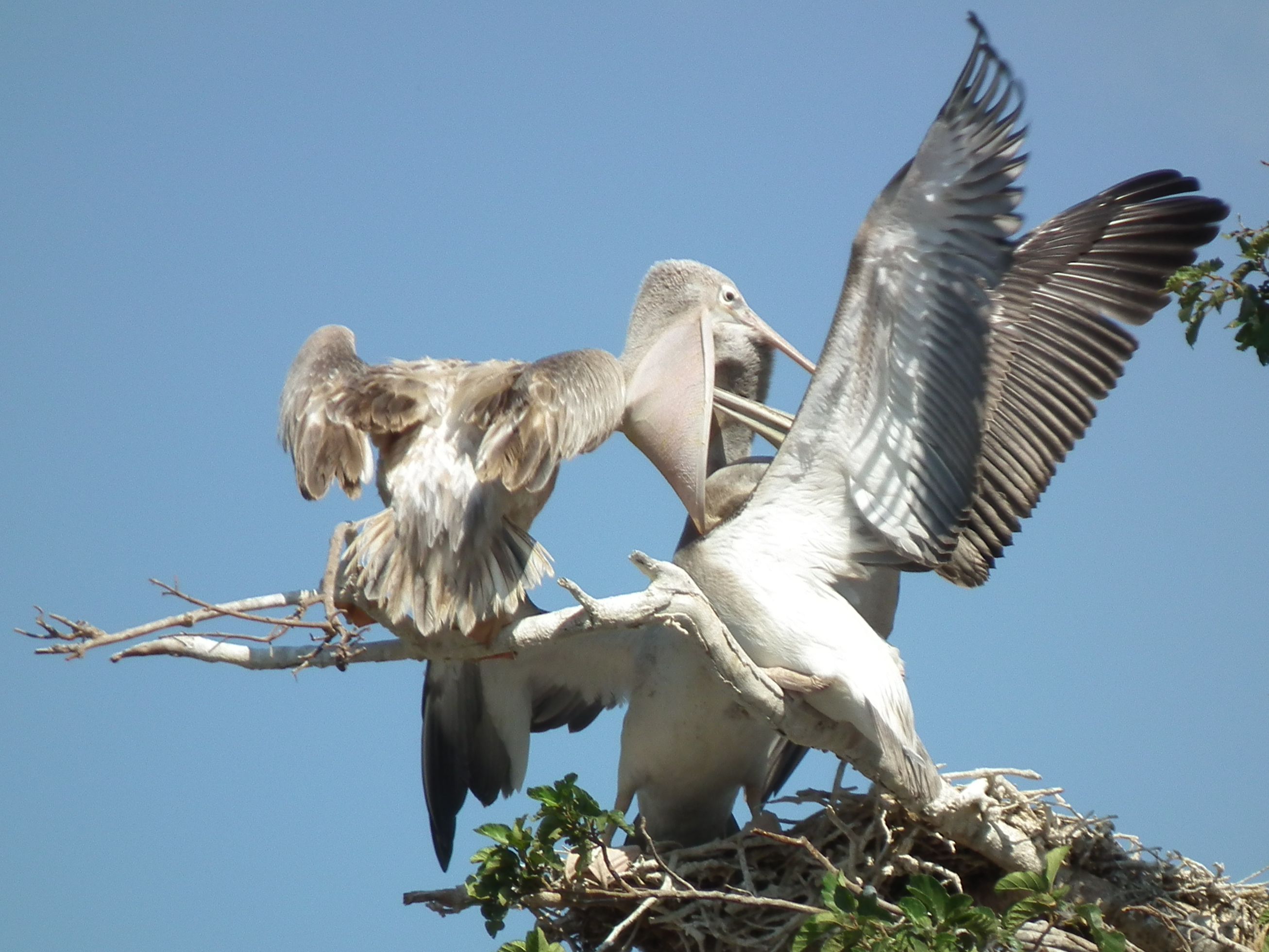 Birds of Tanzania